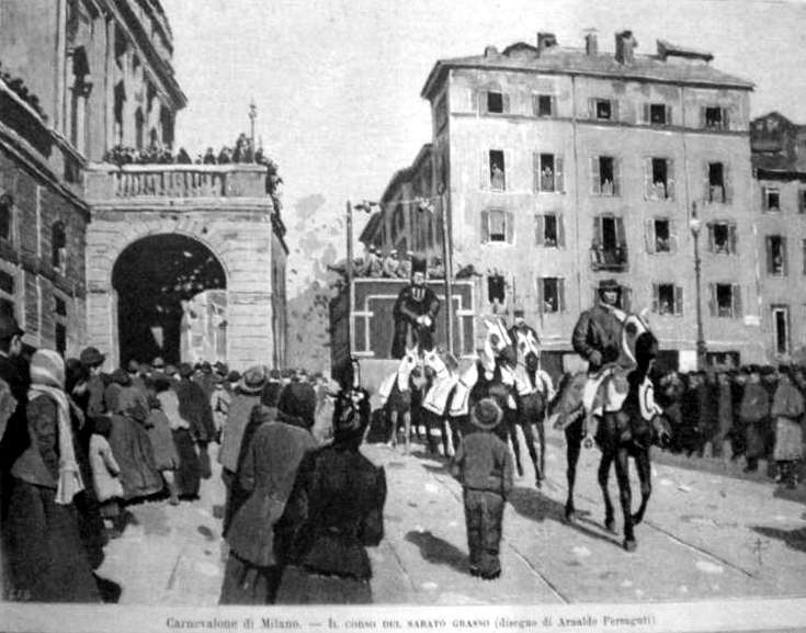 Arnaldo Ferraguti (1862-1925), The big Carnival of Milan. The parade in the last day, Saturday - Lithography derived from a photograph, published in: "L'Illustrazione Italiana", 1893. The chariot is shown passing before "La Scala" Opera house.